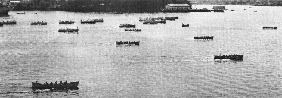 View of the Battenberg Cup whaleboat race at Pearl Harbor, T.H., in 1939, which was won by the U.S. Navy aircraft carrier USS Enterprise (CV-6).